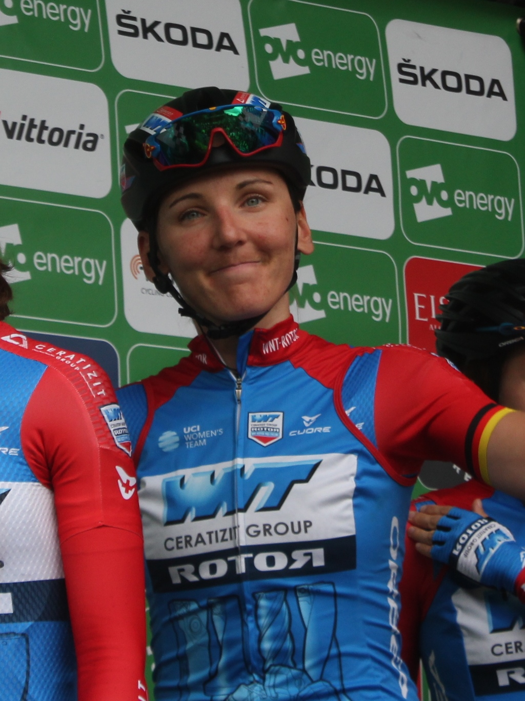 Lisa Brennauer at the start f the third stage of the 2019 Women's Tour.